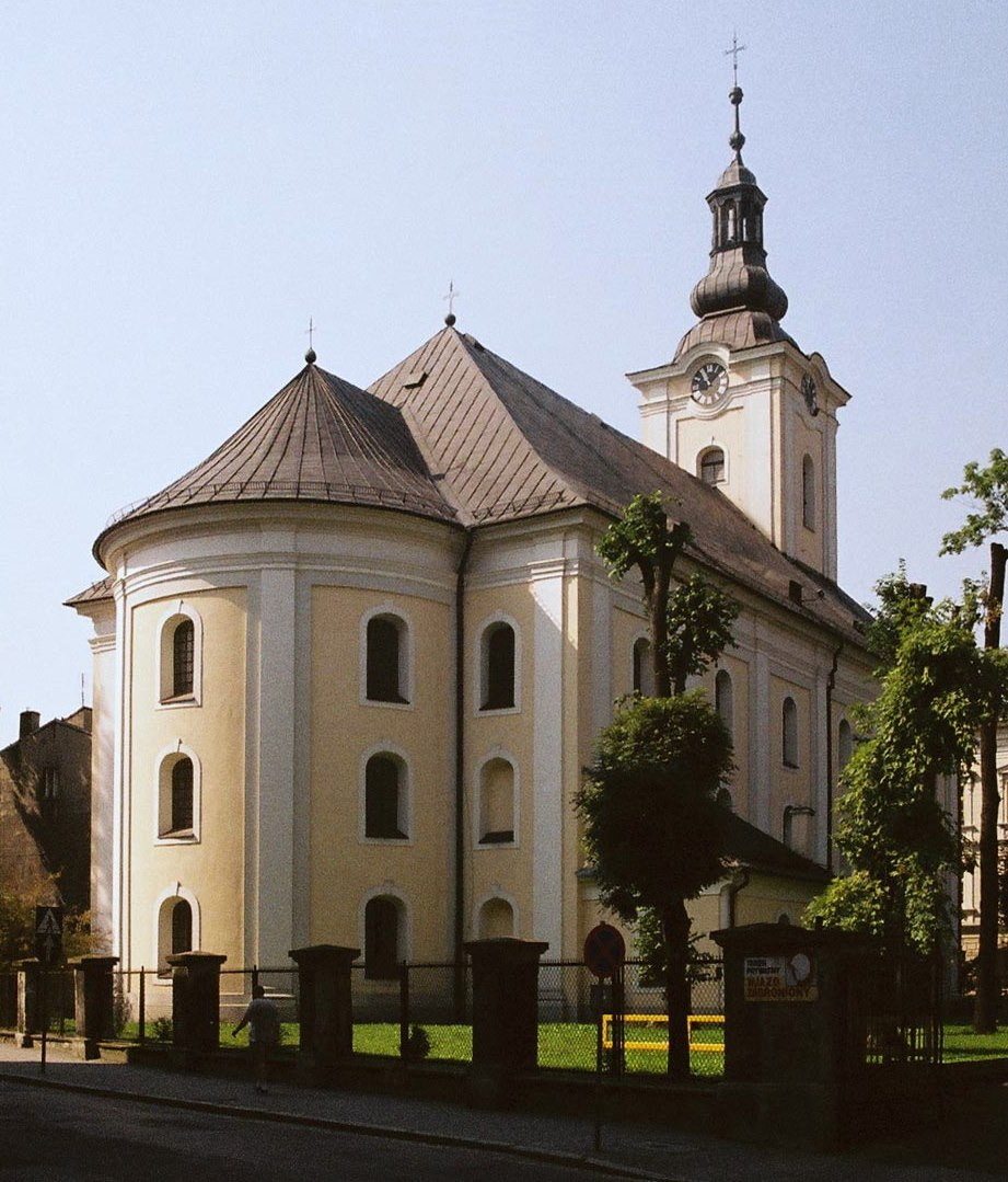 Bielsko-Biała, Poland. Evangelical church of Martin Luther in Biała.